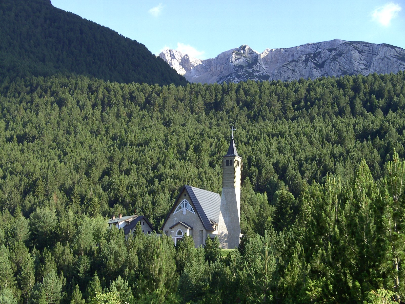 St. Ilija church near Blidinsko jezero Lake in Bosnia and Herzegovina